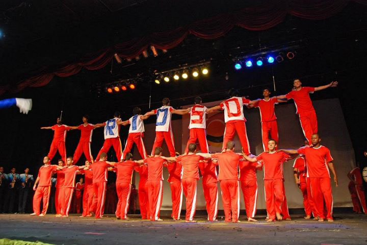 Ginástica montada, Rio de Janeiro. Paredão.